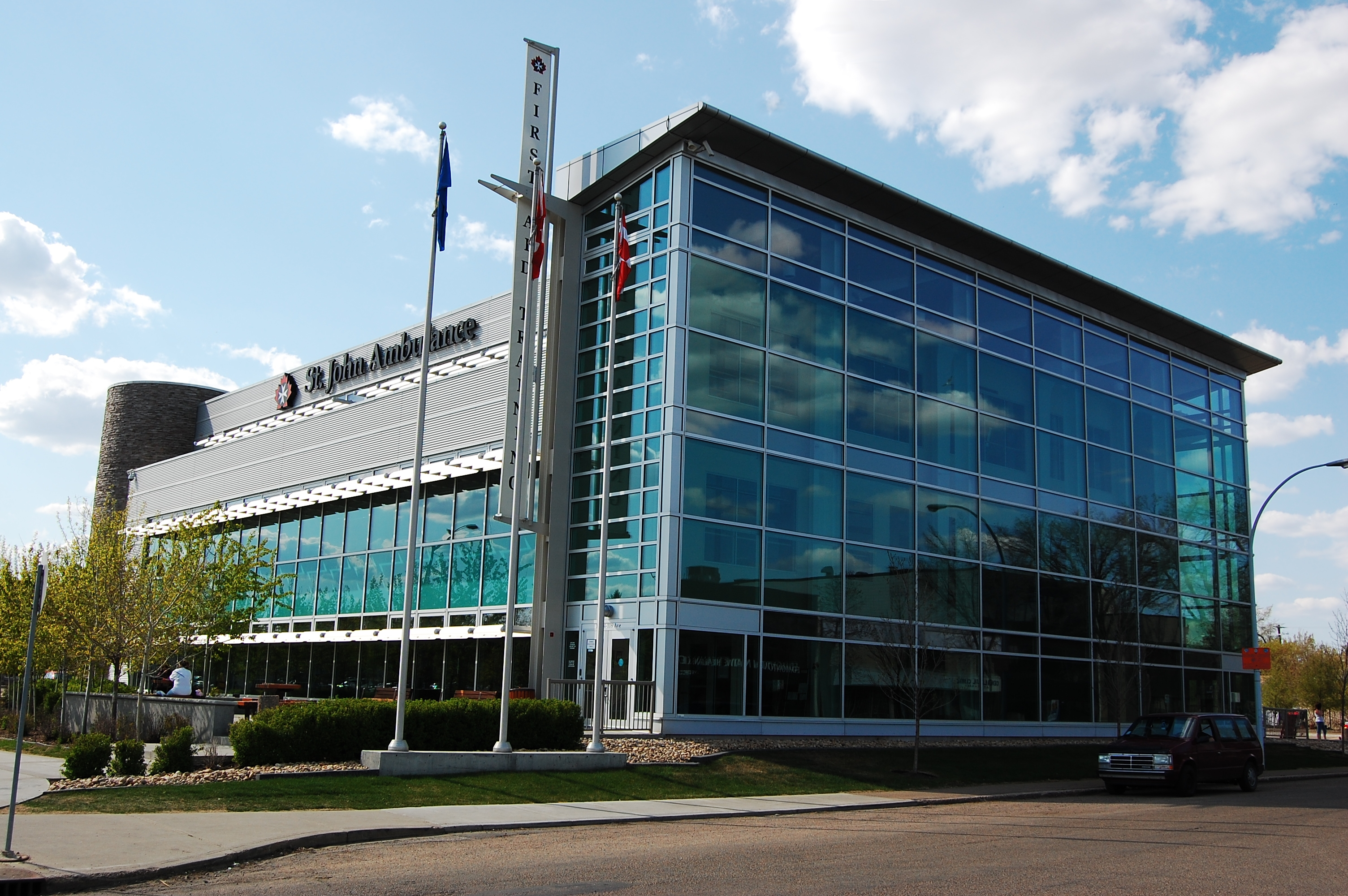 Photo of St. John Ambulance First Aid/CPR training centre on 118 Avenue in Edmonton Alberta